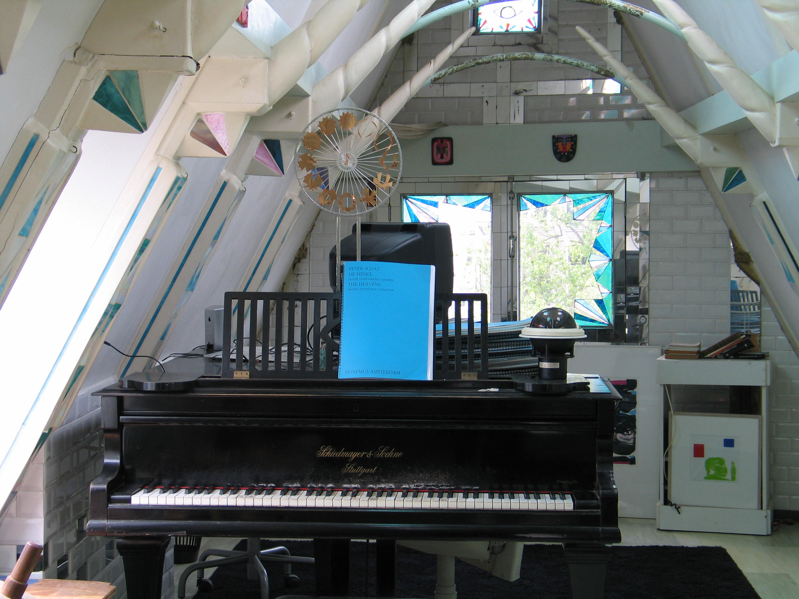 Studio Peter Schat in attic on Oudezijdsachterburgwal